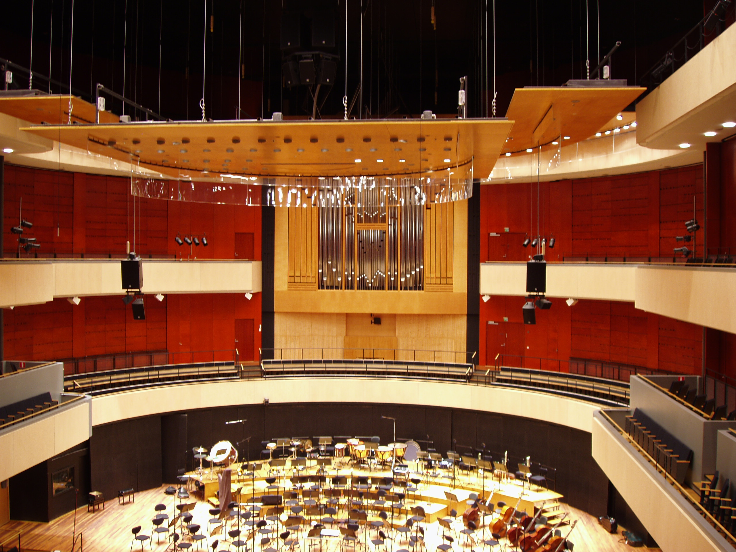 Sibelius Hall Lahti, Finland